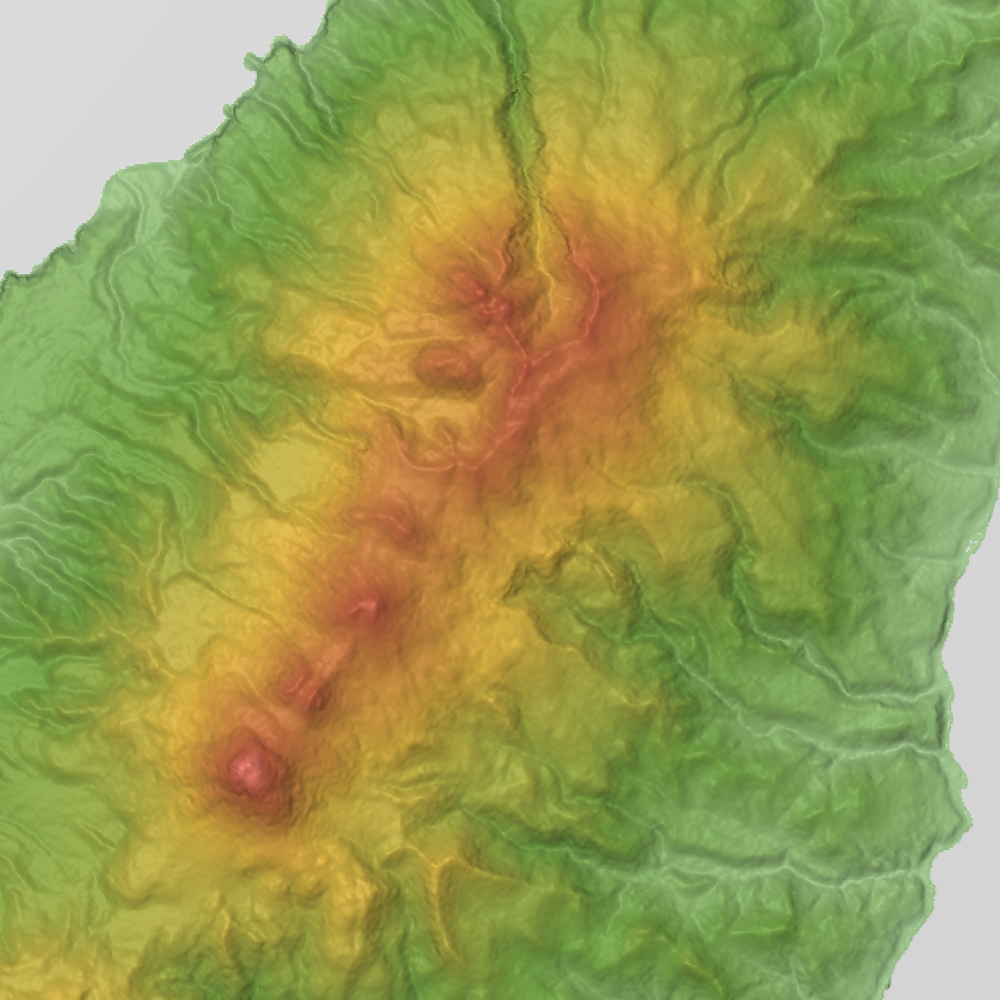 Rausu-Shiretoko Io Volcano Group in Shiretoko Peninsula, Hokkaido, Japan. Mount Rausu in the bottom left. Mount Shiretoko Io in the top right.